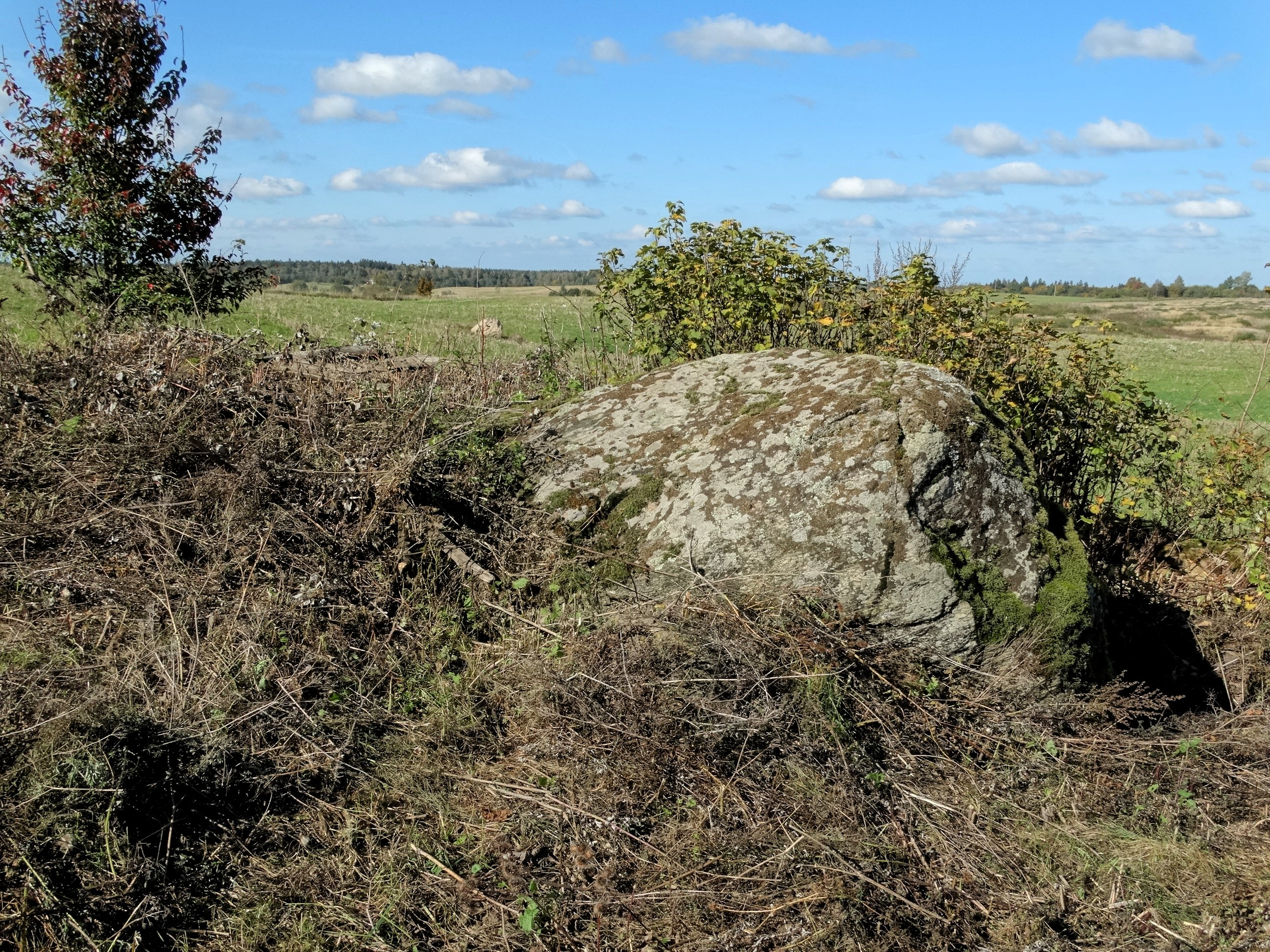 Degučio stone in Medinai, Kaišiadorys District, Lithuania